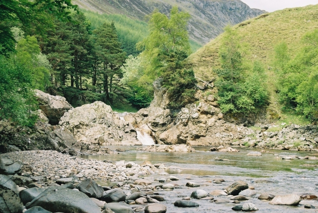 Waterfall near Forest Lodge. This picturesque little cascade is the just below the rock where James Hutton made one of his momentous discoveries, which changed the face of geology and our understanding of the world. He discovered rocks with granite veins, which he interpreted as evidence that molten rock had been intruded into pre-existing rocks. This was the basis of his theory of Plutonism, which ascribed the development of rocks on the Earth's crust to heat rising from the mantle.